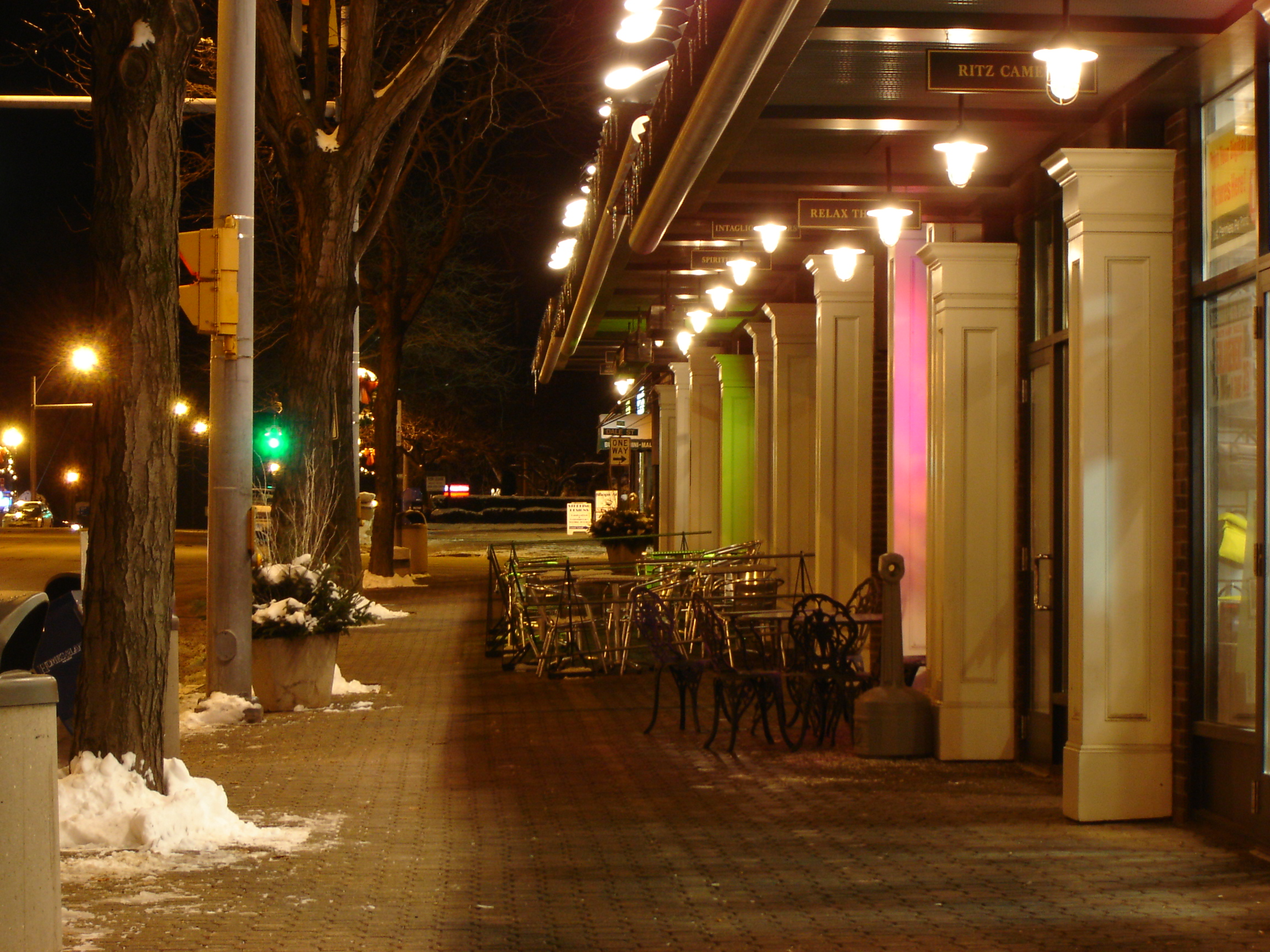 Downtown West Hartford seen at night. Photo by Andru Valpy, 2004